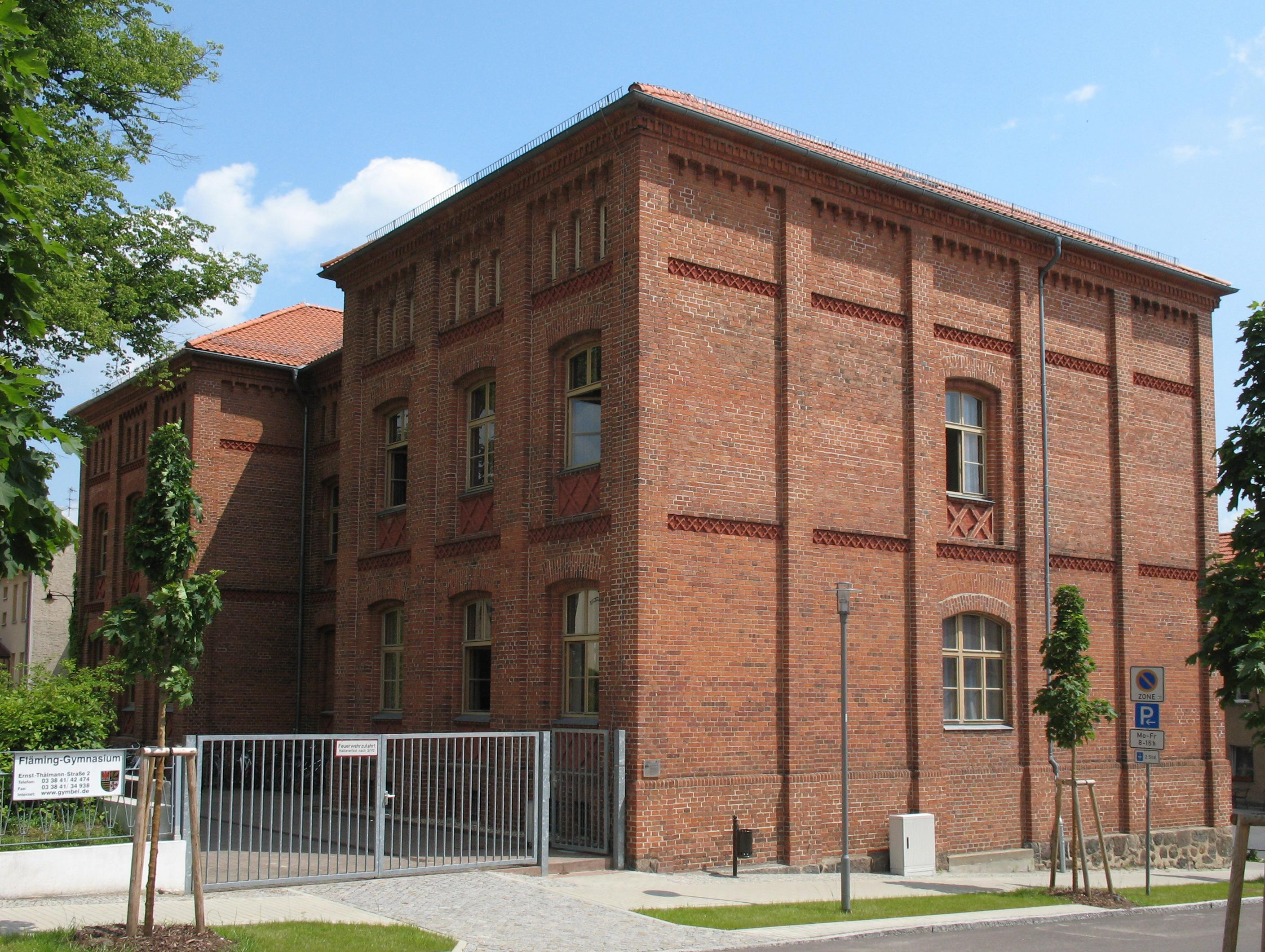 School building in Bad Belzig in Brandenburg, Germany